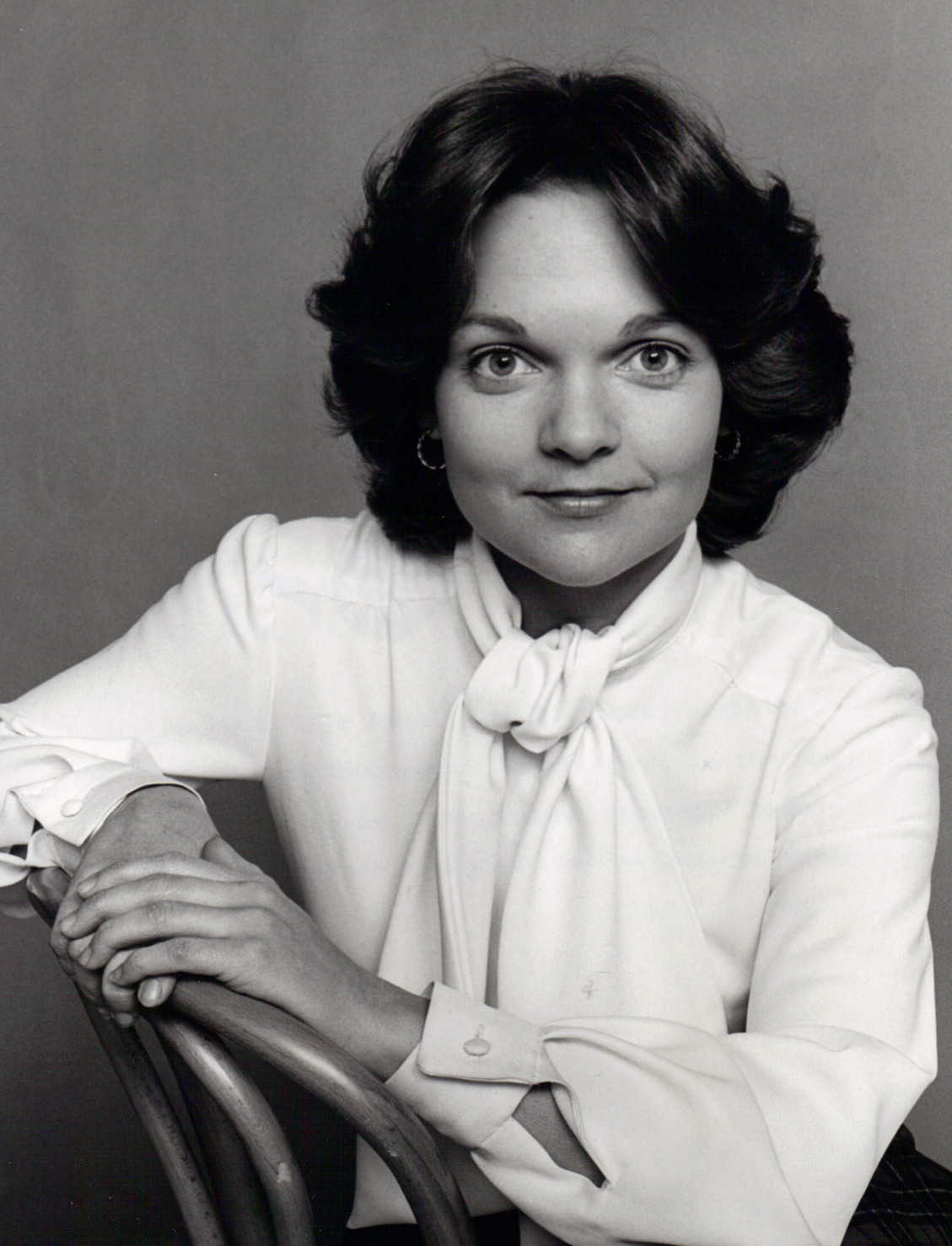 Publicity photo of Pamela Reed in The Andros Targets